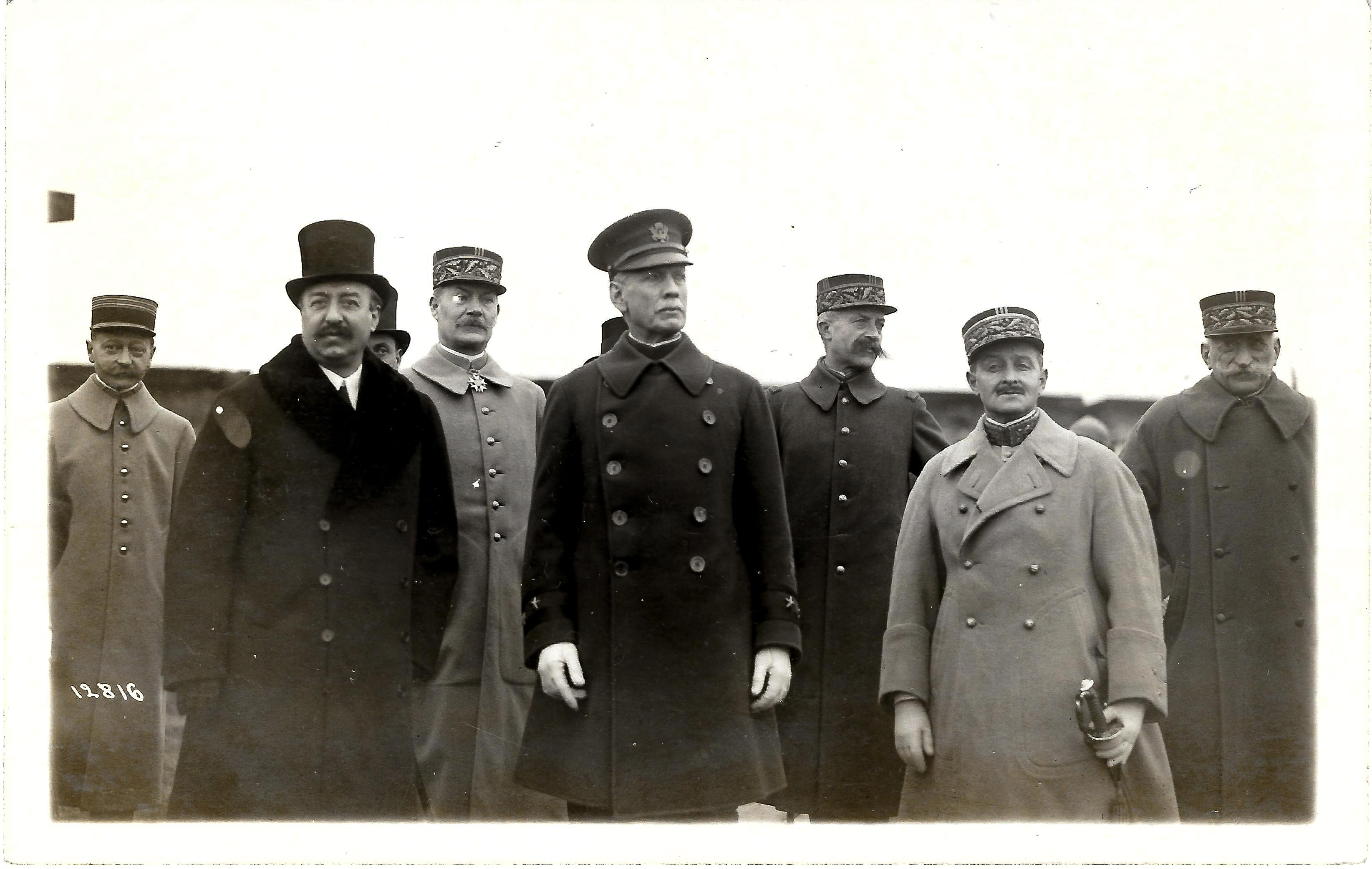 General Henry T. Allen and Paul Tirard, president of the Inter-Allied Rhineland High Commission, during the change of flags ceremony at fort Ehrenbreitstein, 24 January 1923